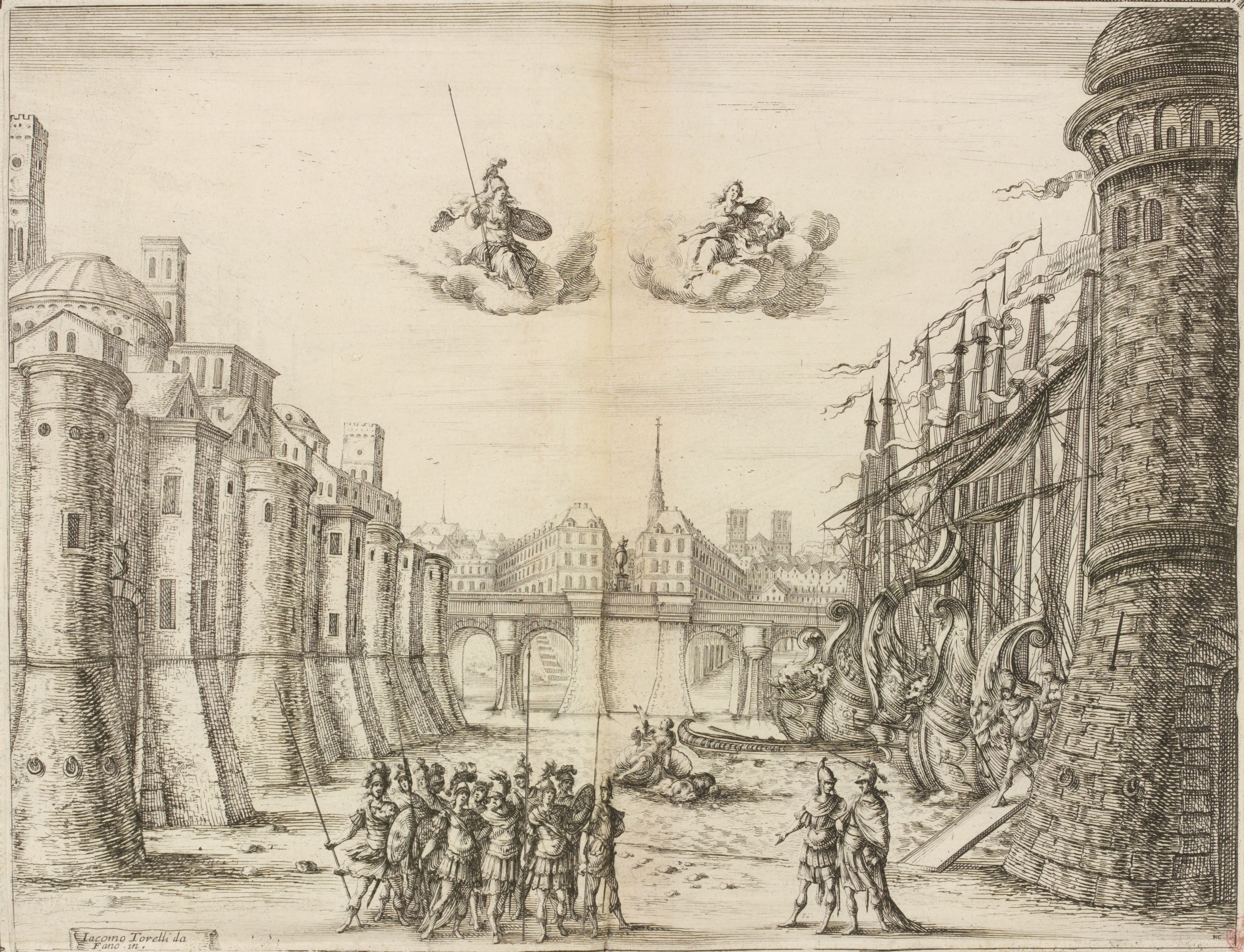 Set design for Feste theatrali per la Finta pazza , drama del sigr Giulio Strozzi, rappresentate nel Piccolo Borbone in Parigi quest anno 1645 et da Giacomo Torelli, words by Giulio Strozzi and engravings of the set designs by Giacomo Torelli